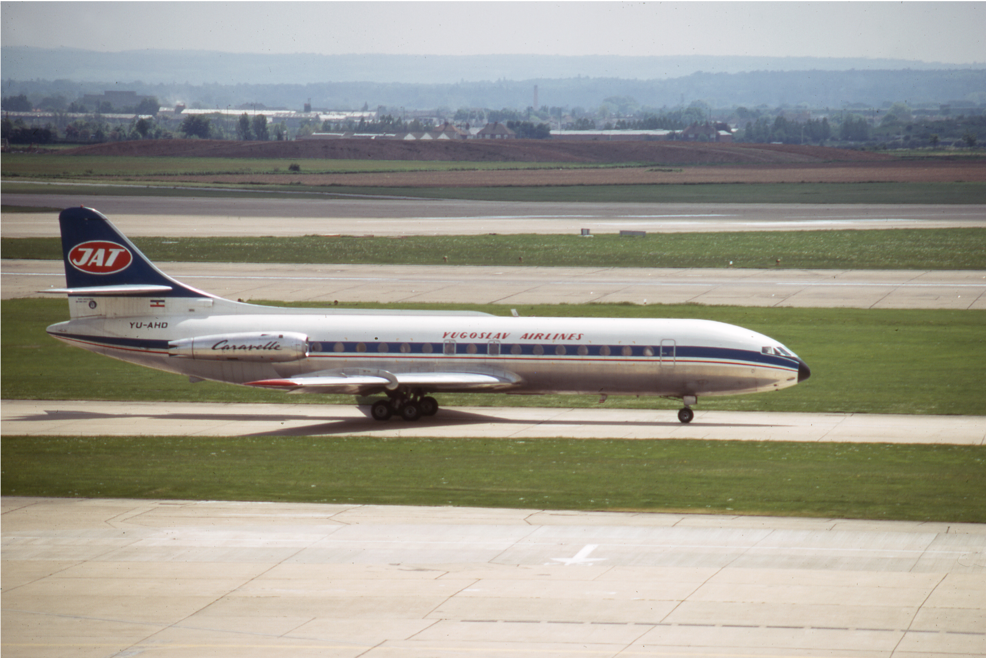 A Sud Aviation SE-210 Caravelle VI-N aircraft (YU-AHD) of JAT Airways at London Heathrow Airport. This aircraft crashed into Maganik mountain on 11 September 1973, killing all 41 passengers and crew.